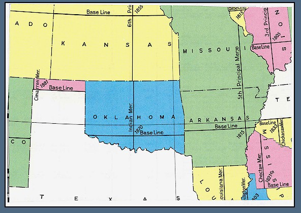 U.S. Bureau of Land Management map showing principal meridians and base lines used for cadastral surveys.